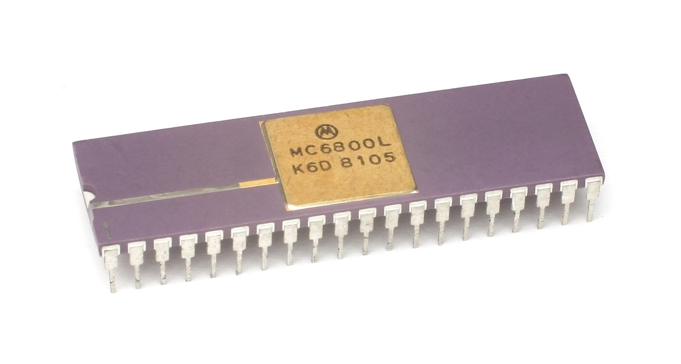 CPU Motorola MC6800L.